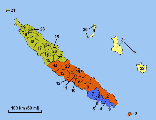 Map by Godefroy orginally uploaded on enWiki ==